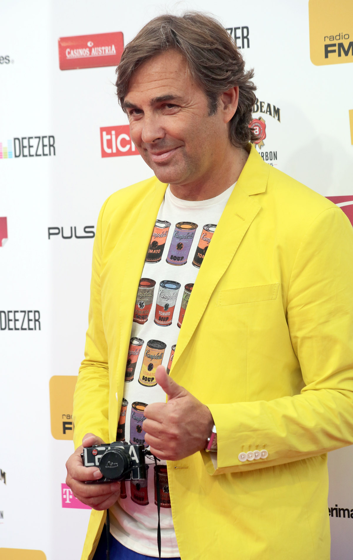 Prince Hubertus of Hohenlohe-Langenburg at the Amadeus Austrian Music Award at Volkstheater in Vienna